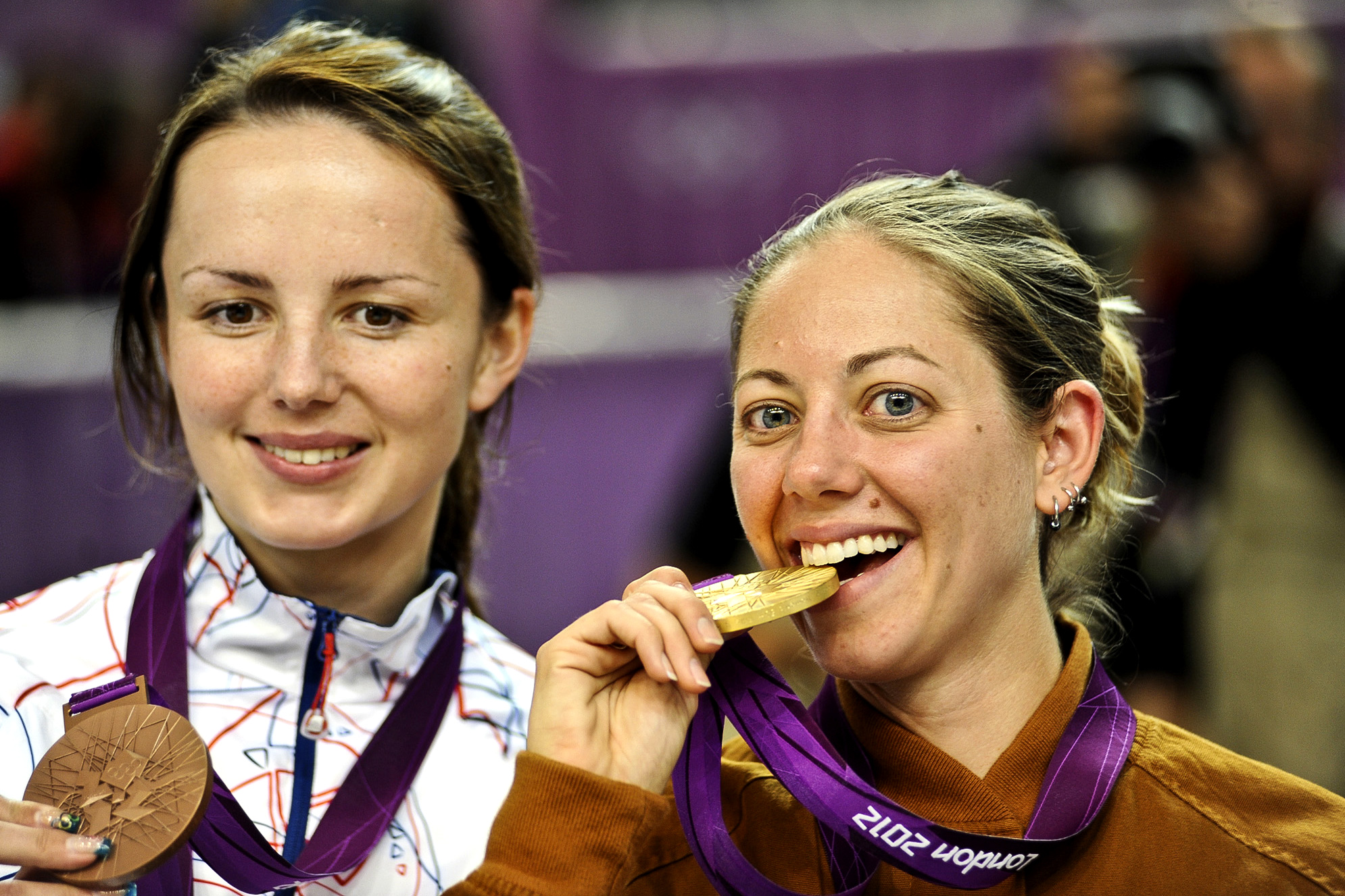 Jamie Gray, wife of U.S. Army Marksmanship Unit shooter SSG Hank Gray, bites her Olympic gold medal after winning the women's 50-meter rifle 3-positions event Aug. 4 at the Royal Artillery Barracks range in London. Bronze medalist Adéla Sýkorová of the Czech Republic stands beside Gray, who established Olympic records in both qualification (592) and final (691.9) of the event, which includes shooting from prone, standing and kneeling positions.